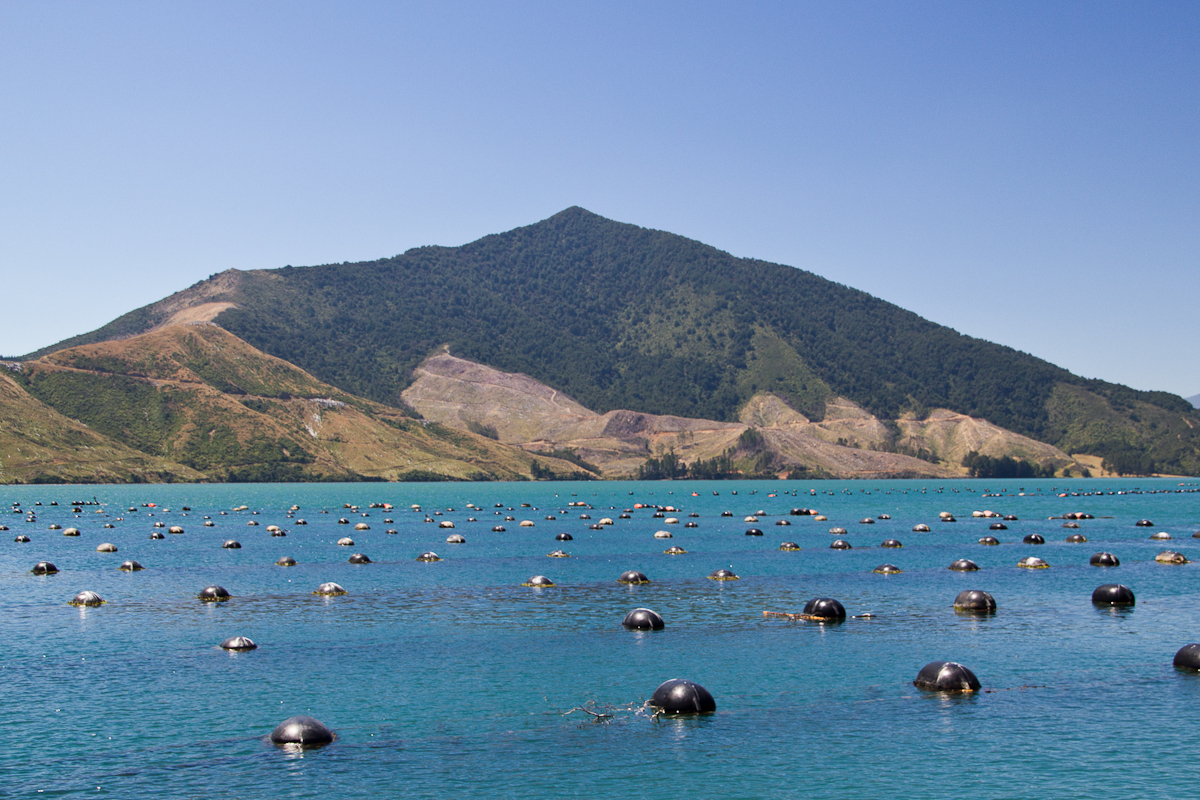 A New Zealand Green Lipped Mussel Farm near Havelock, South Island, New Zealand